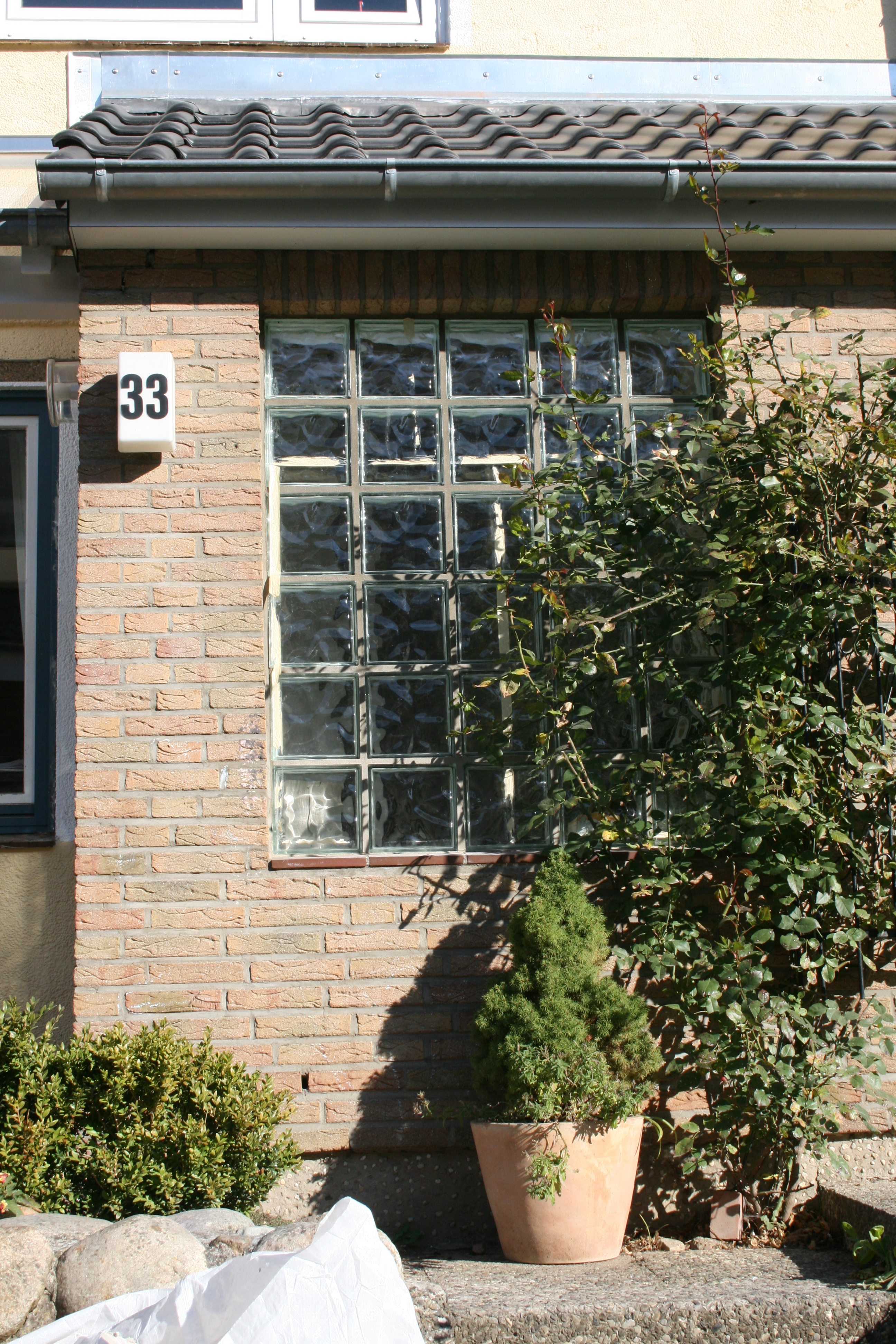 The building Heinrich-Heine-Weg 33 in Hamburg-Bergedorf, with the Stolperstein for Margarethe Käti Schultze